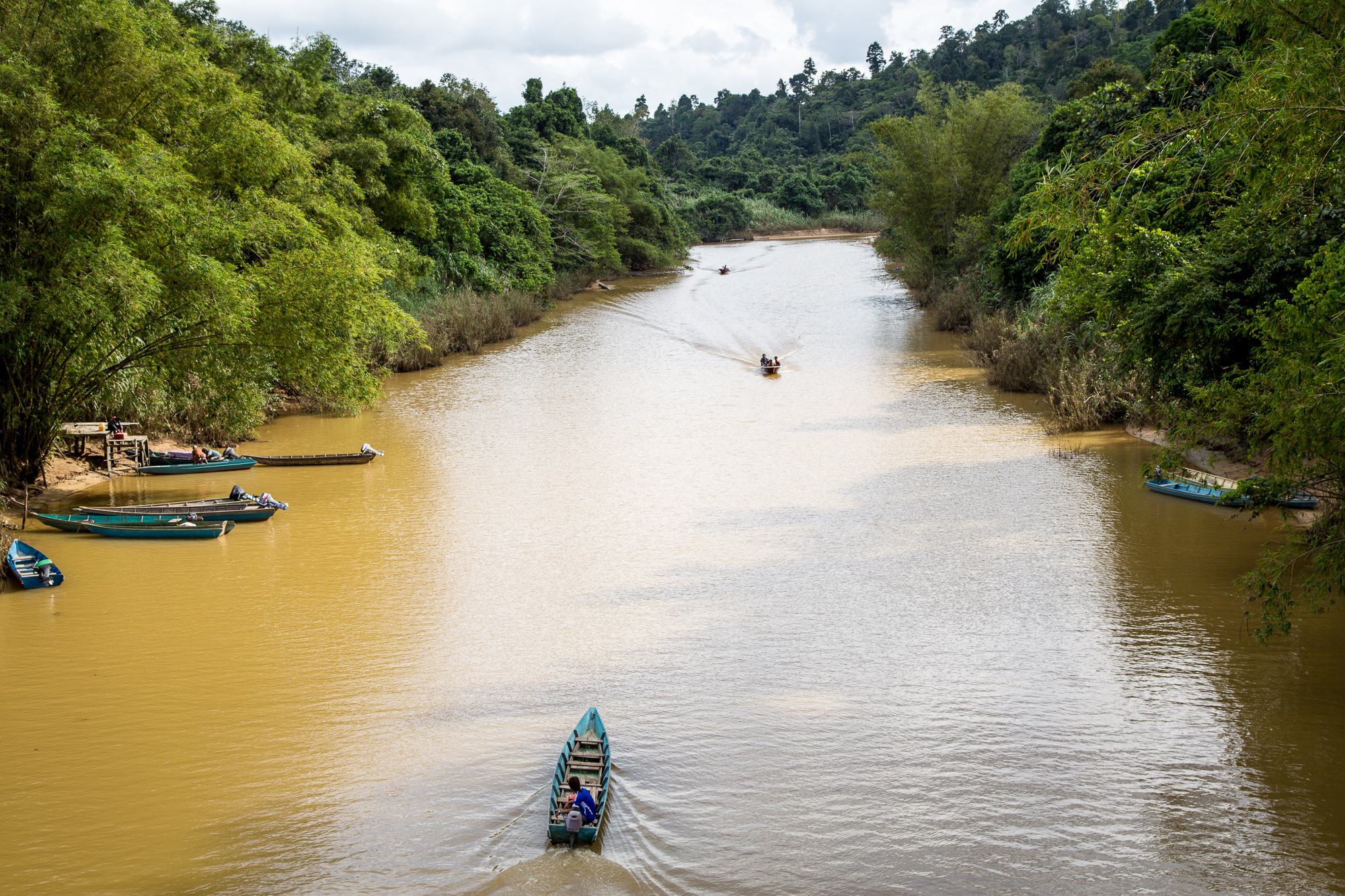 Rivers of Sabah: Sungai Paitan at the bridge of Kg. Tigawe, Paitan, Sabah